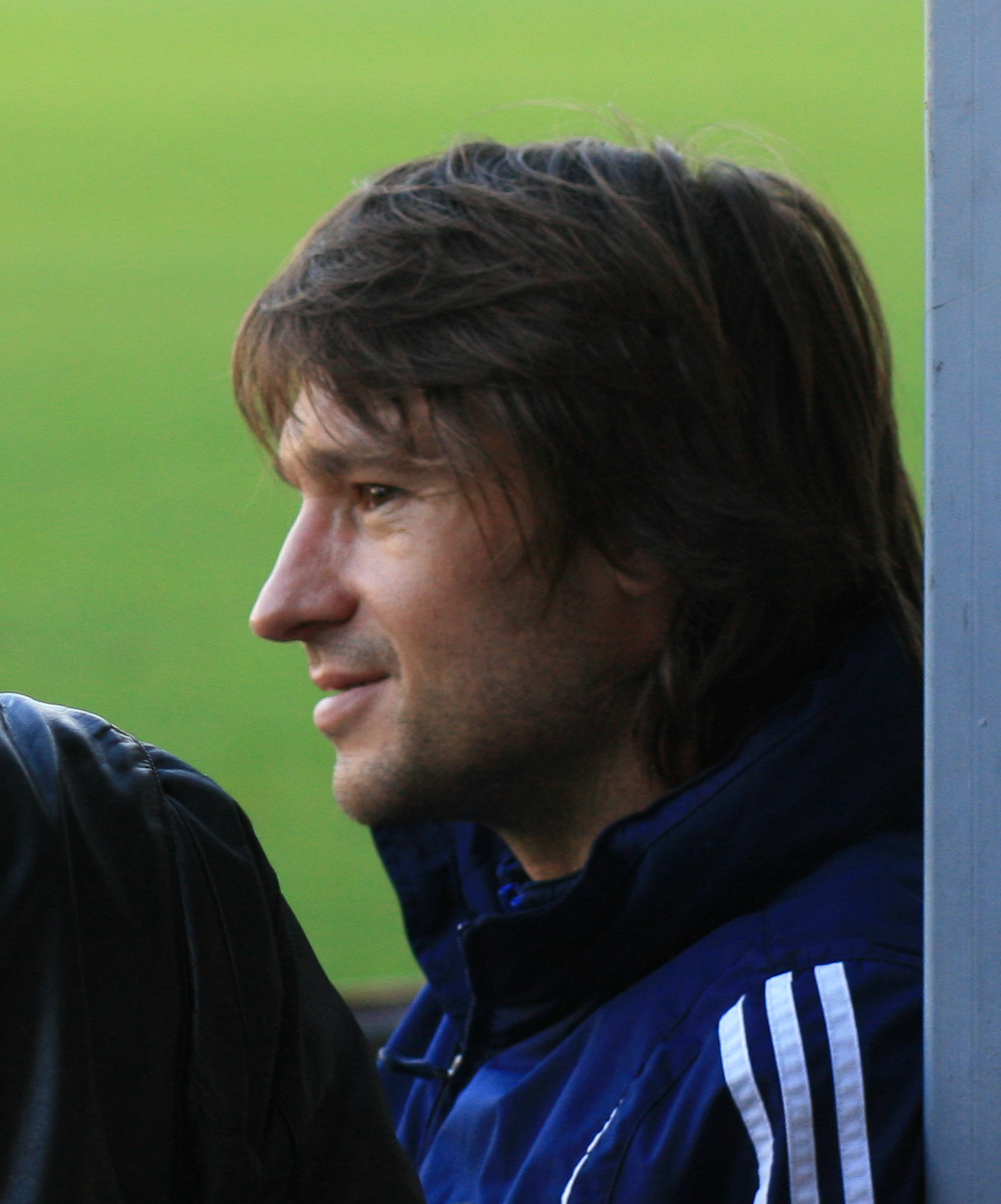 Vitālijs Astafjevs, Latvian football player